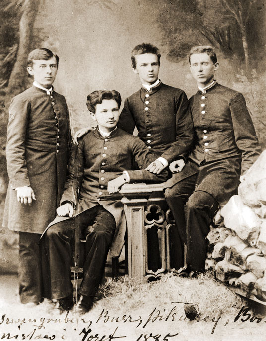 Bronisław Piłsudski and Józef Piłsudski 1885